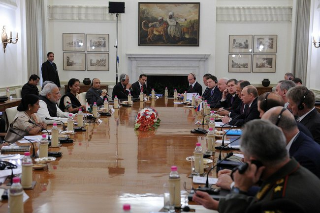 Russian-Indian talks in expanded format in New Delhi, India.